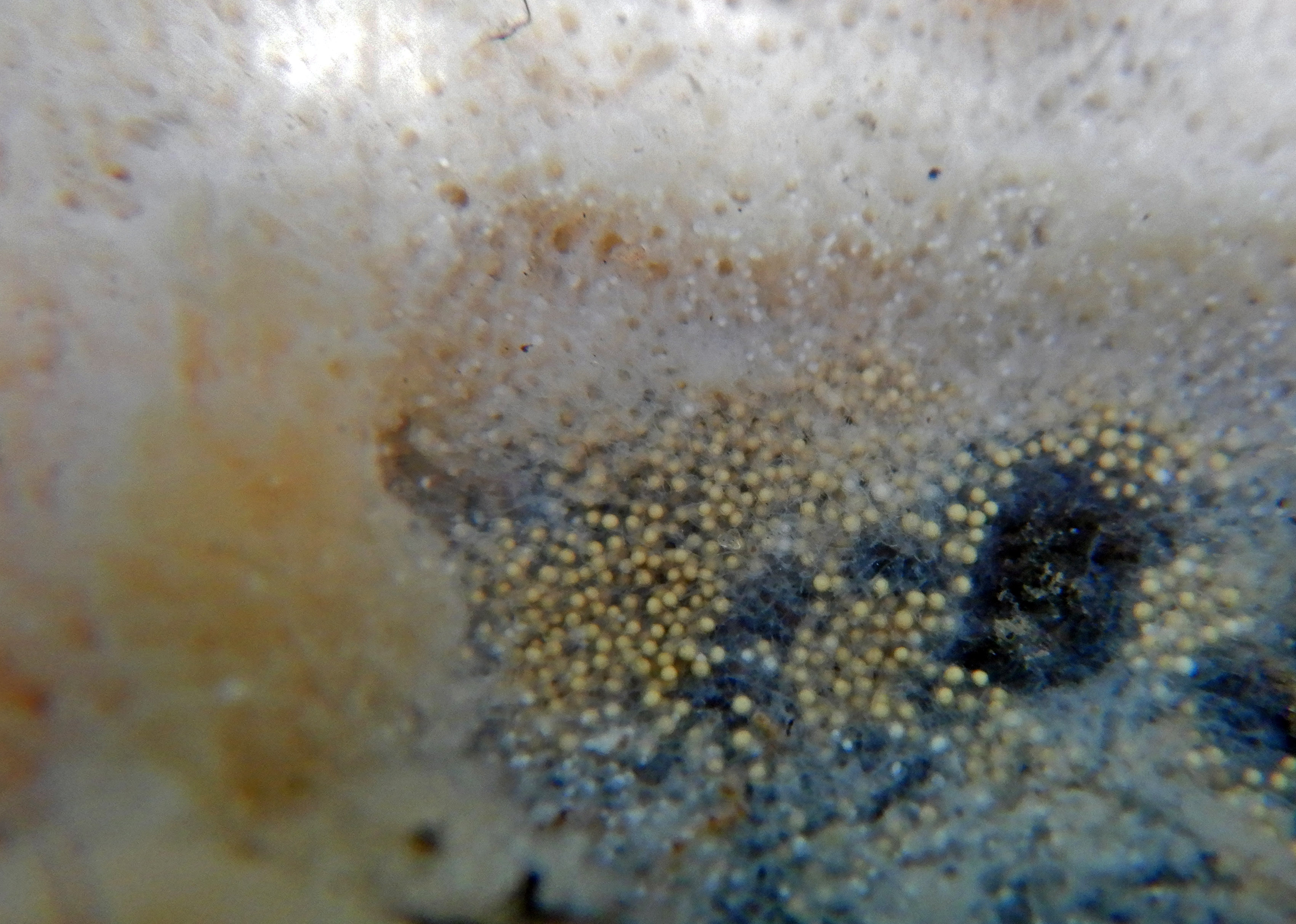 Fresh water Sponge in Authie river (in the Region Hauts-de-France, Northern France). Note: Despite several rainy periods in the hours and days before this photo the water remained clear, the sponges help to filter the water, but not in winter for some species like spongilla lacustris.